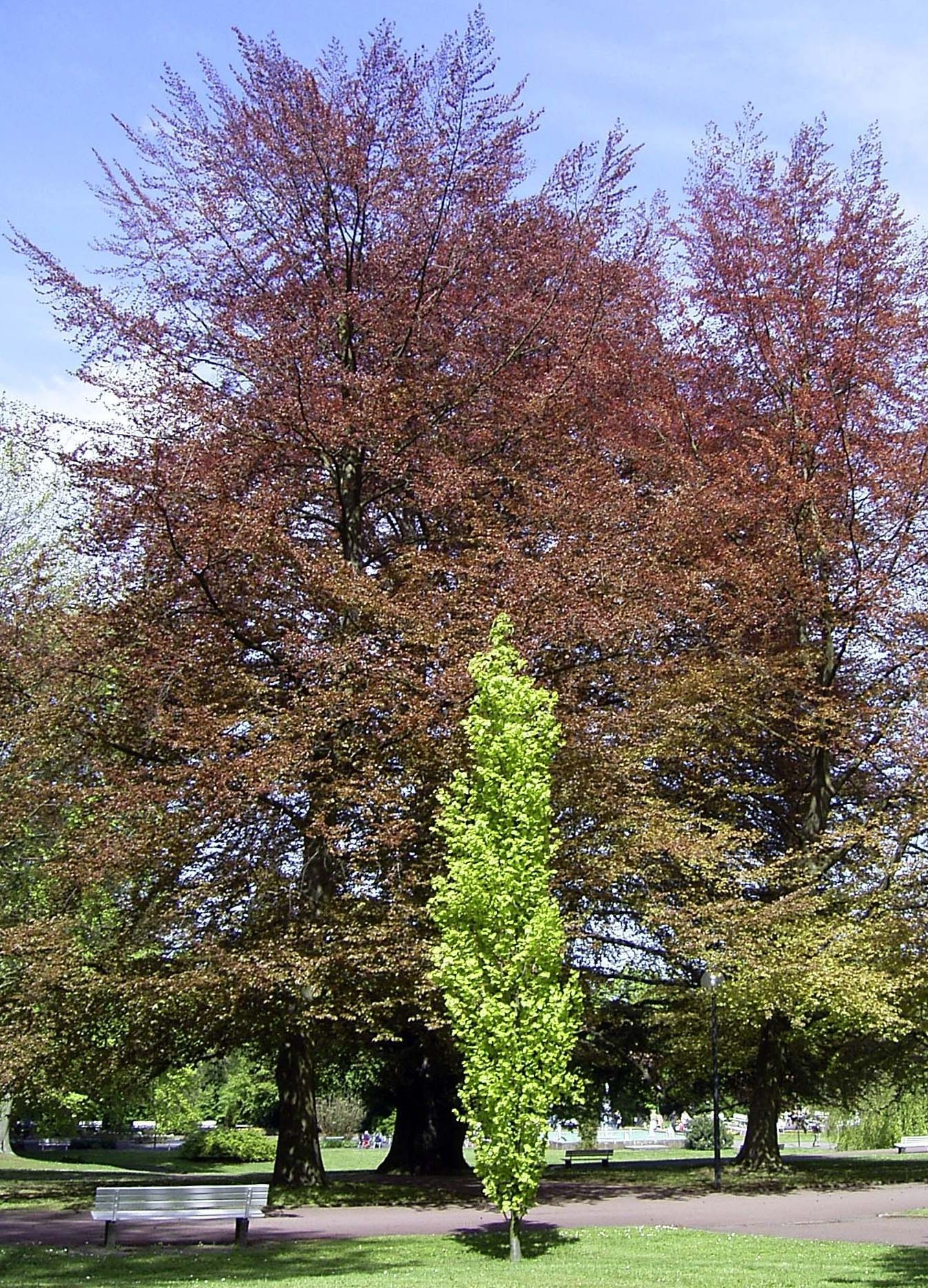 Fagus sylvatica 'Purpurea'/'Zlatia' in Bad Nenndorf, Germany